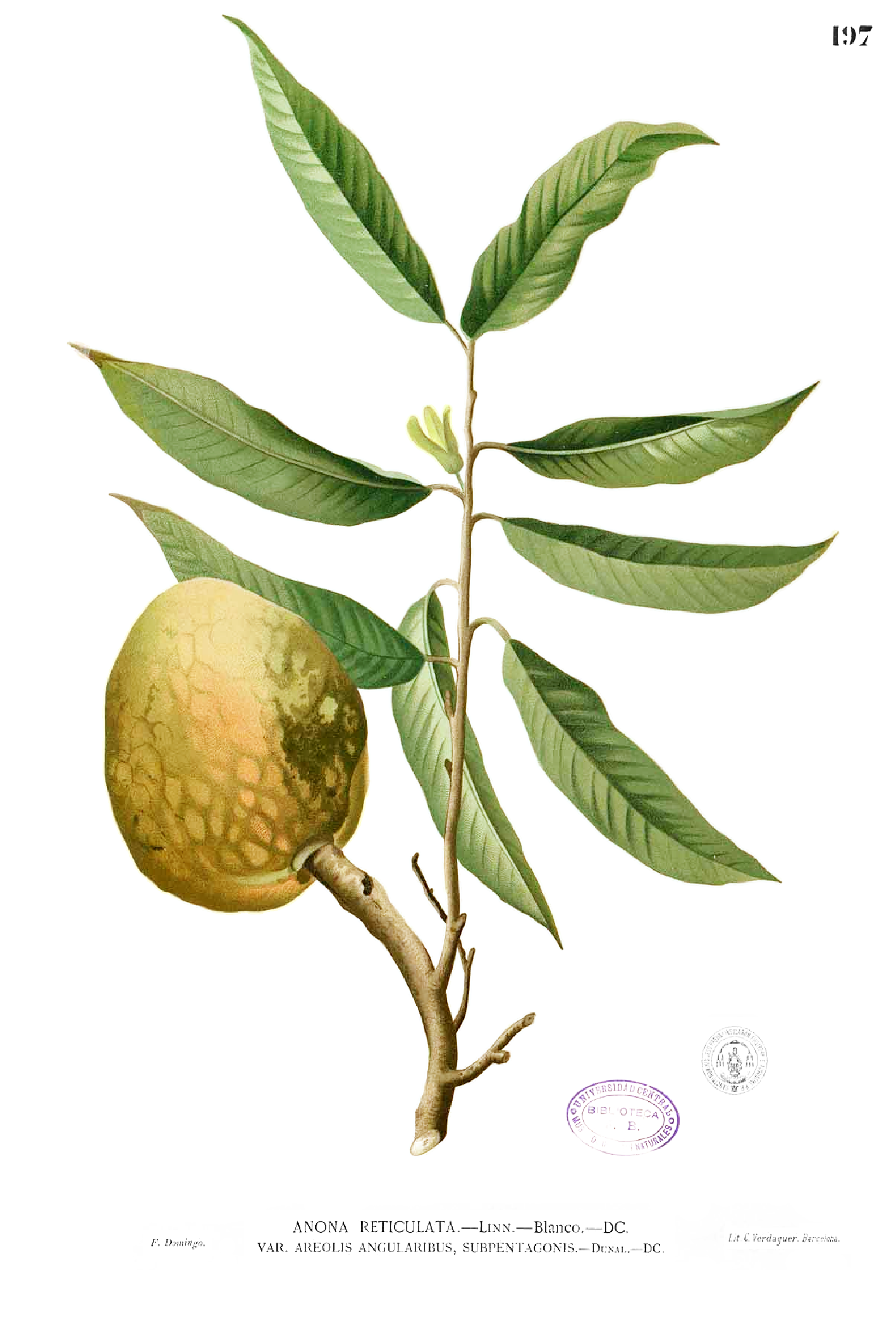 Plate from book